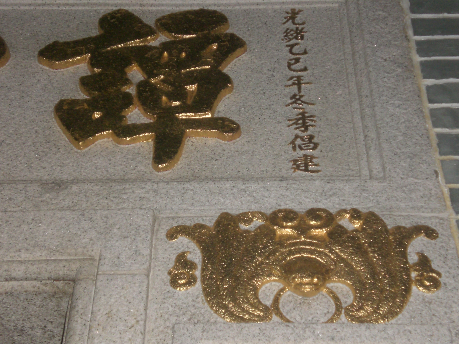 筲箕灣 譚公廟道 筲箕灣譚公廟